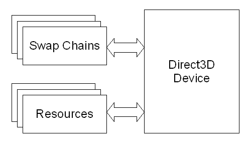 Direct3D Device. English version. You can also get the Spanish version